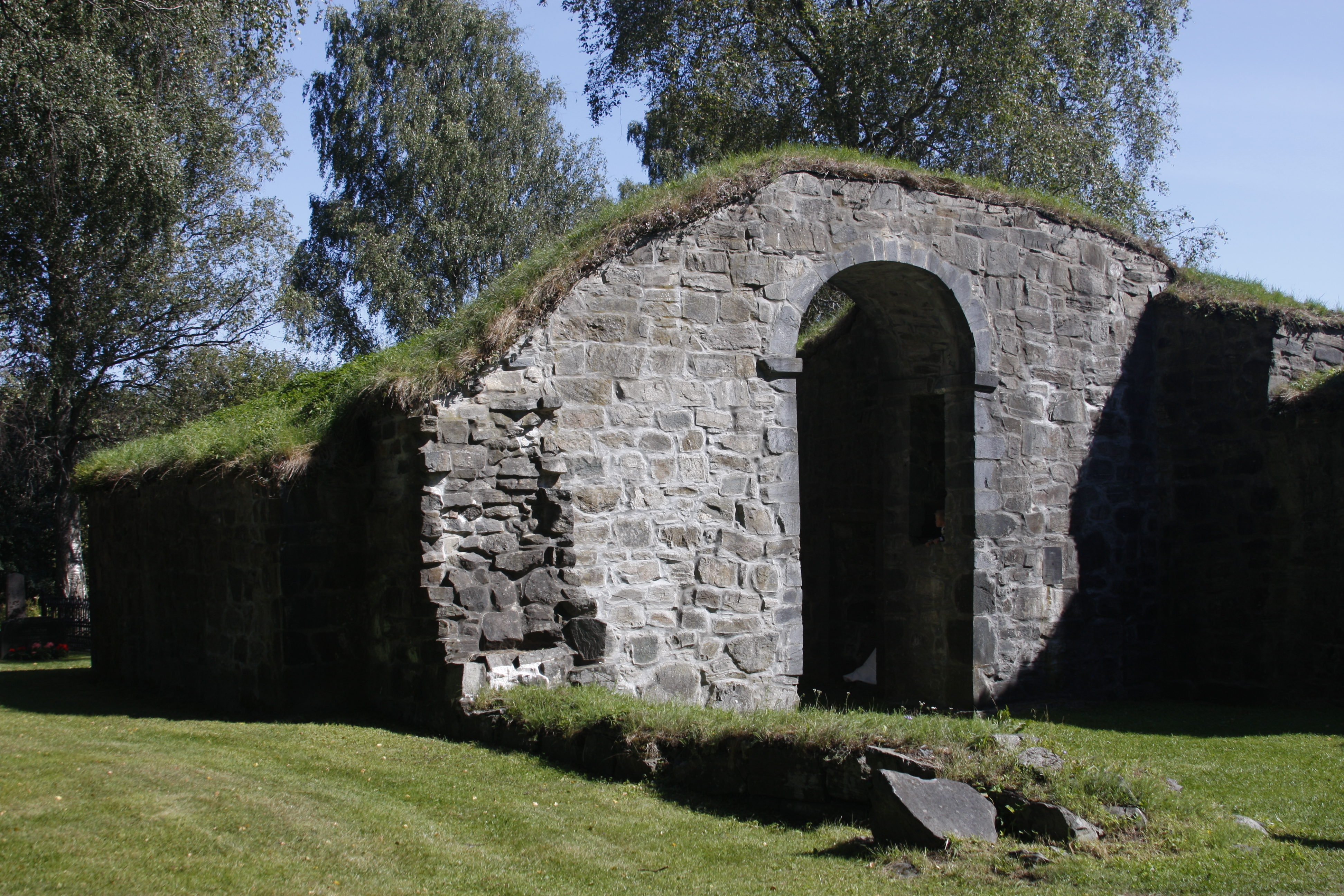 Bamble church ruin. Bamble, Telemark (Norway)